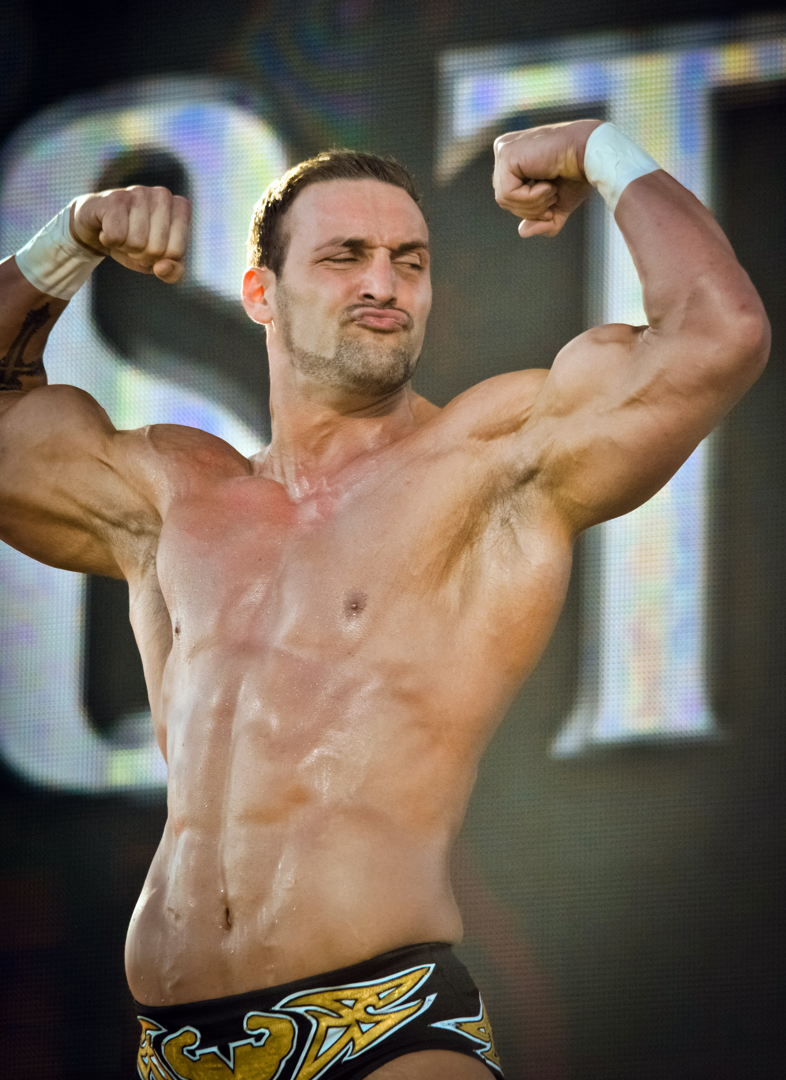 Chris Masters at WWE's Tribute to the Troops show in Fort Hood, Texas, on December 11, 2010.